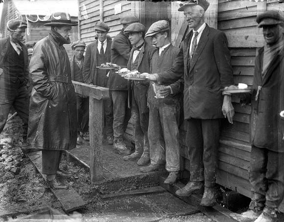 Lined up outside workmen's huts at the Shannon Hydro-Electric Scheme at Ardnacrusha, Co. Limerick. Can't make out what's on the plates, but fairly sure there's bread and/or spuds… Date: 1928 NLI Ref.: INDH756